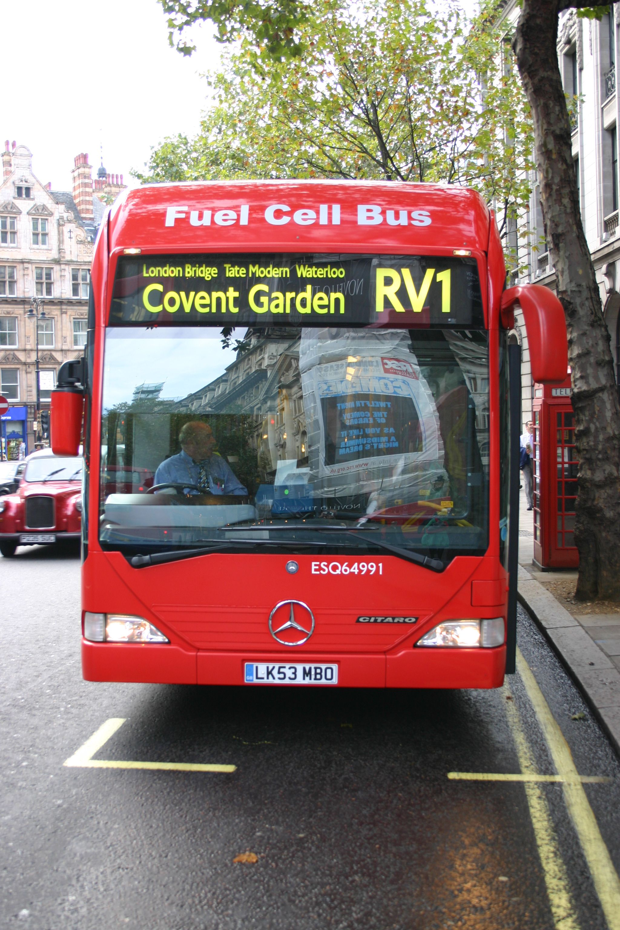 First London bus ESQ64991 (reg. LK53 MBO), a 2003 Mercedez-Benz Citaro single-deck fuel cell bus, in Aldwych, London on London Buses route RV1.